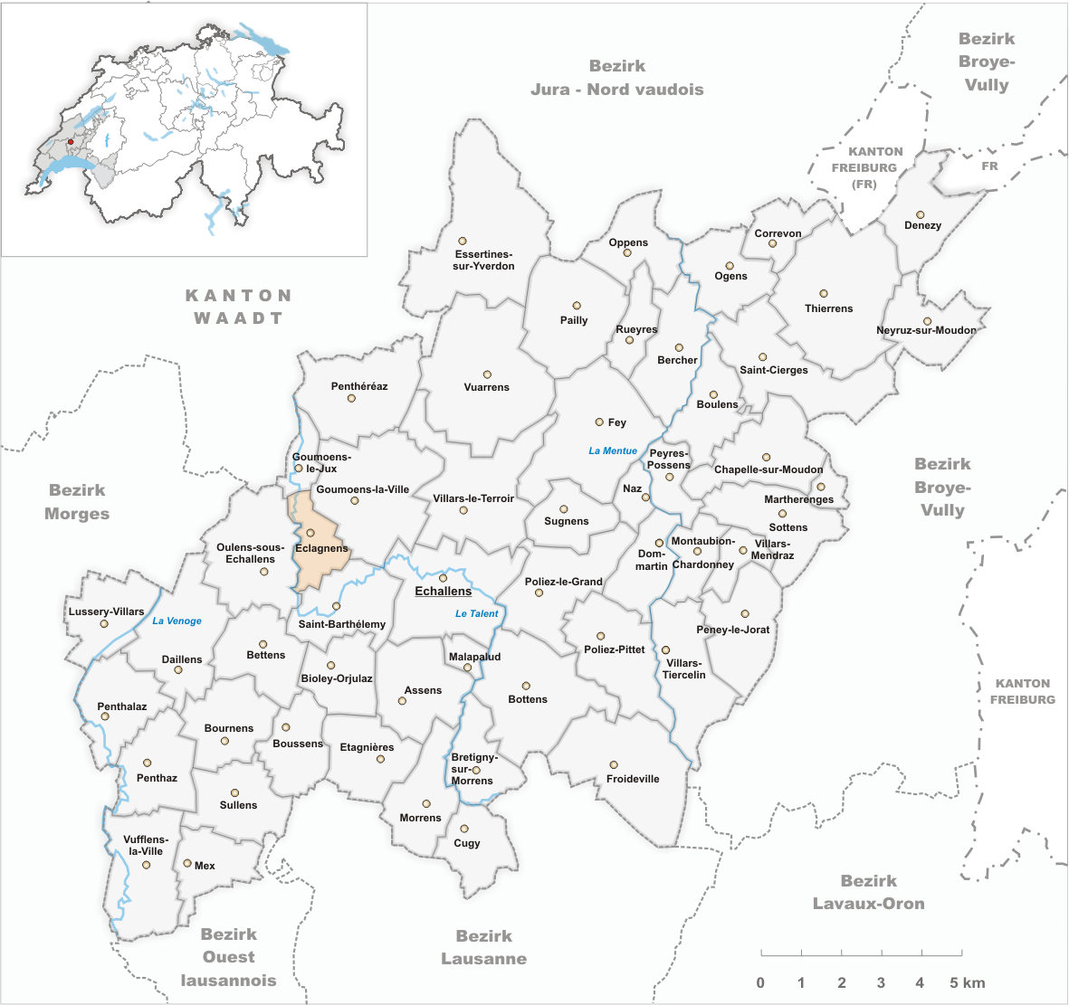 Municipality Eclagnens